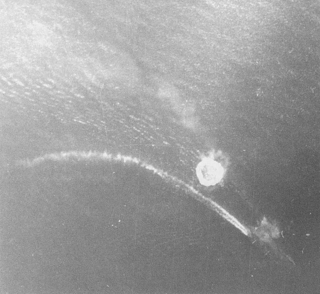 Imperial Japanese Navy seaplane tender Kiyokawa Maru maneuvers under air attack by aircraft from the United States Navy carrier USS Yorktown (CV-5) during the Japanese invasion of Lae-Salamaua on 10 March 1942. The ship was lightly damaged.